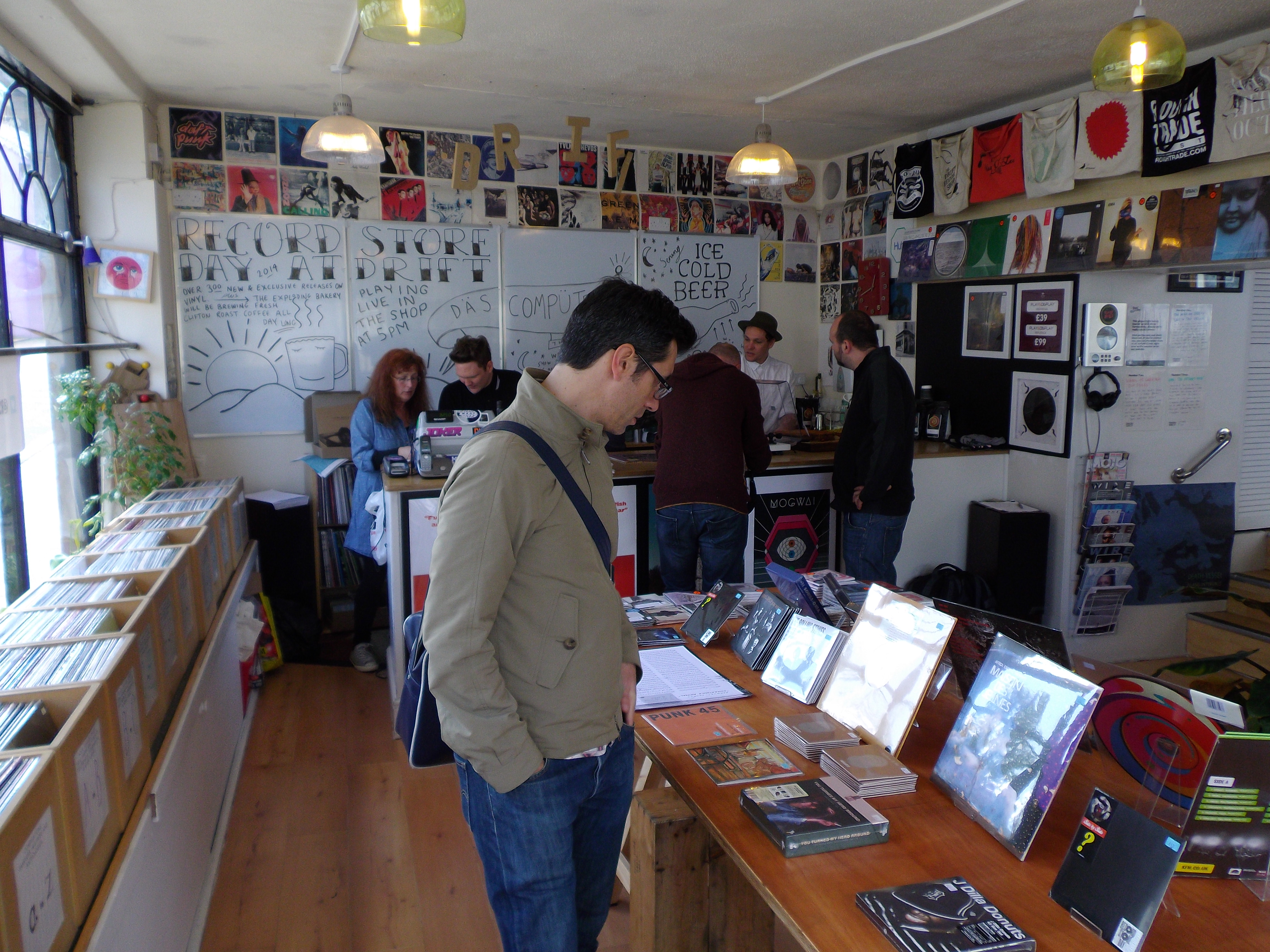 Record Store Day 2014 at Drift Records in Totnes.